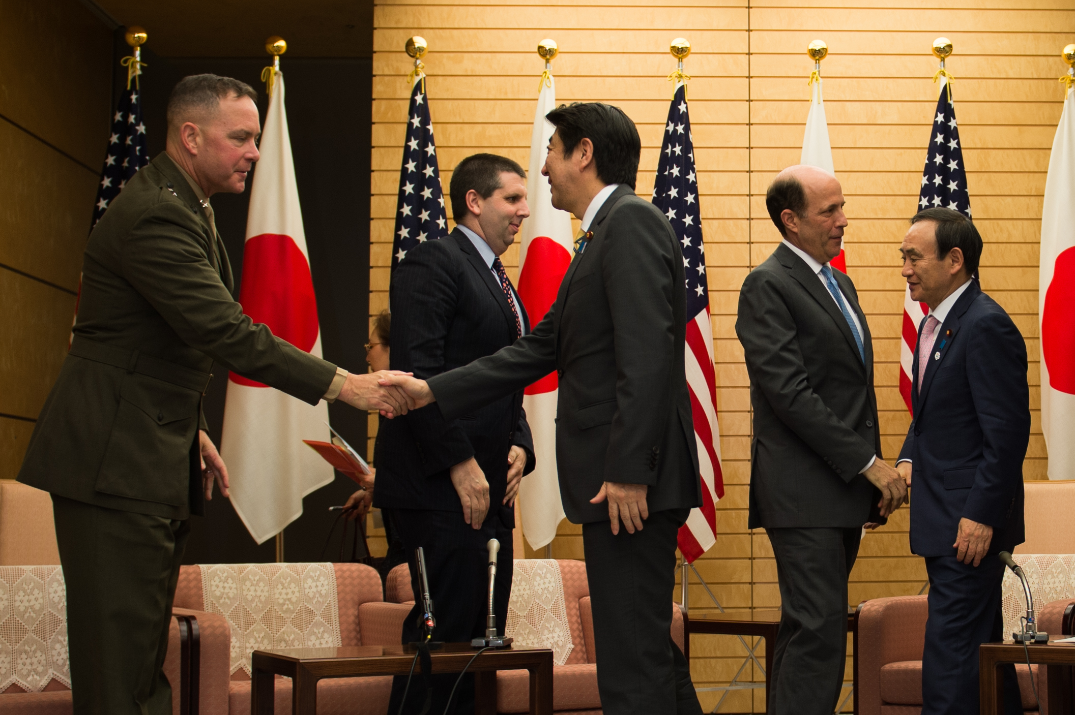 TOKYO, Japan (April 5, 2013) Major General Andrew W. O'Donnell, Jr., Deputy Commander of the United States Forces, Japan, shakes hands with Prime Minister Shinzo Abe, while U.S. Ambassador to Japan John V. Roos and Chief Cabinet Secretary Yoshihide Suga shake hands at the Joint Press Announcement of the Okinawa Consolidation Plan [State Department photo by William Ng/Public Domain]